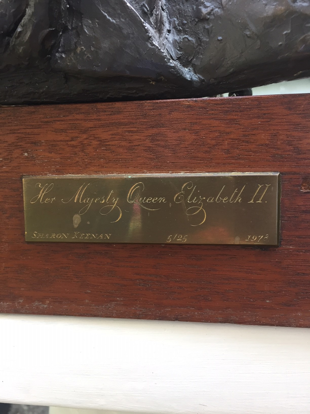 This is a bust of Queen Elizabeth II sculpted by Sharon Keenan 1978